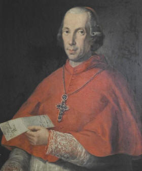 Bartolomeo Pacca, cardinal of the Roman Catholic Church